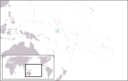 Location of Banaba (Ocean Island), Kiribati